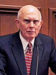 Dallin H. Oaks member of the Quorum of the Twelve Apostles of The Church of Jesus Christ of Latter-day Saints, former professor of law at the University of Chicago Law School, a former president of Brigham Young University, and a former justice of the Utah Supreme Court.